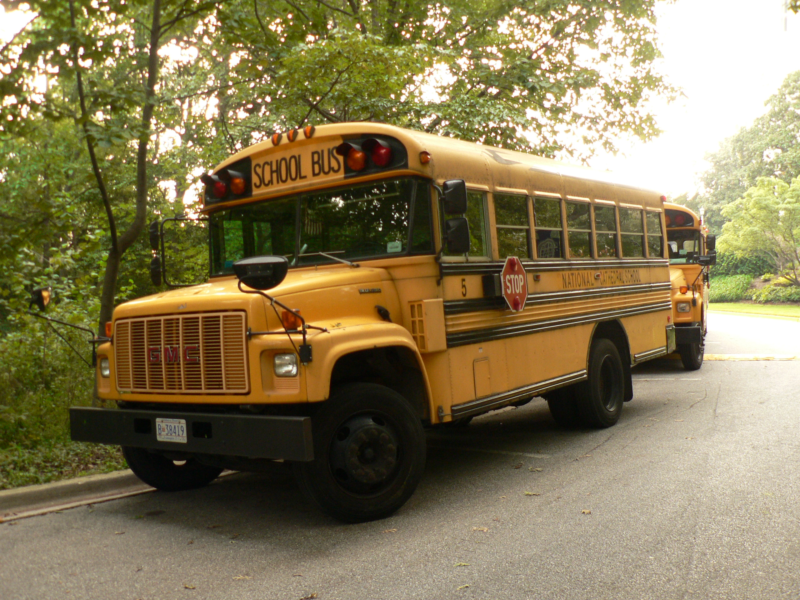 A picture of a school bus in Washington D.C., United States. The school bus is a 1996-2003 Blue Bird CV200 body with a GMC B7 body.